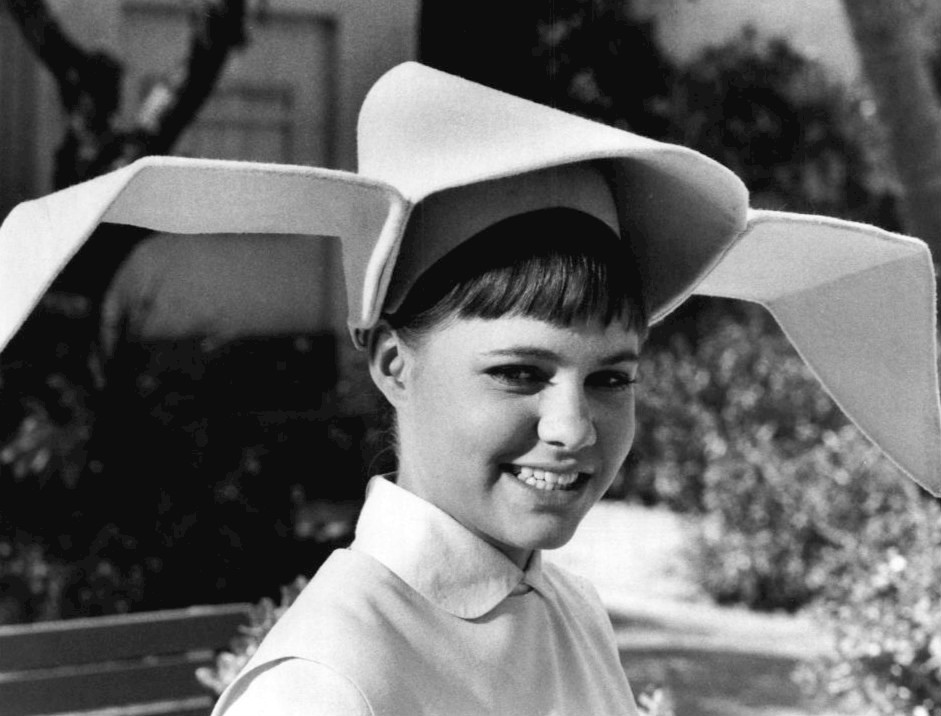 Photo of Sally Field as the Flying Nun from the television series of the same name.